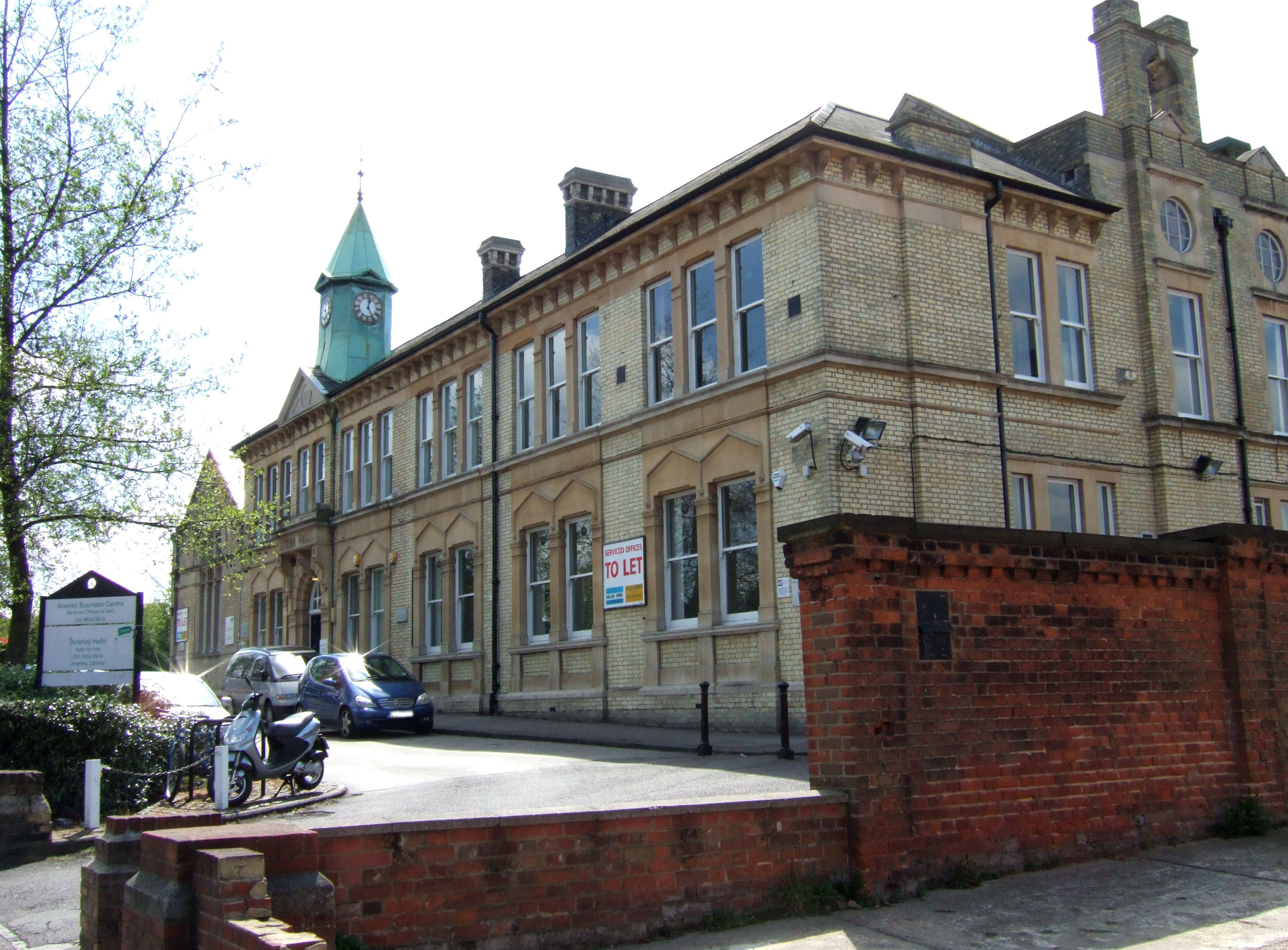 What is currently known as Anerley Town Hall was once the civic centre for Penge Urban District Council.